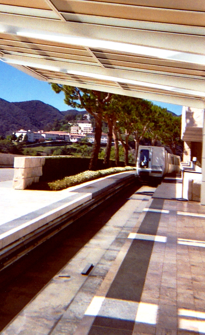 Getty Center tram arriving at museum stop. Los Angeles, California.